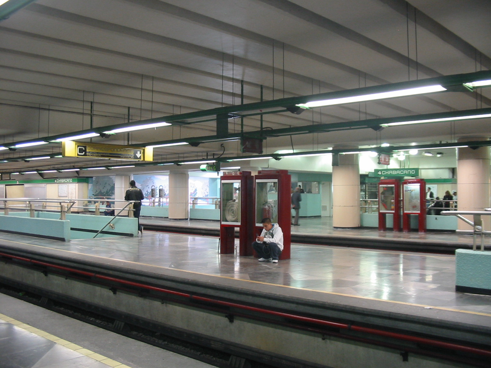 Green line platform at Metro Chabacano